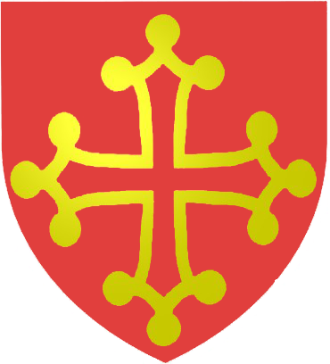 Coat of arms of region Midi-Pyrénées, France.